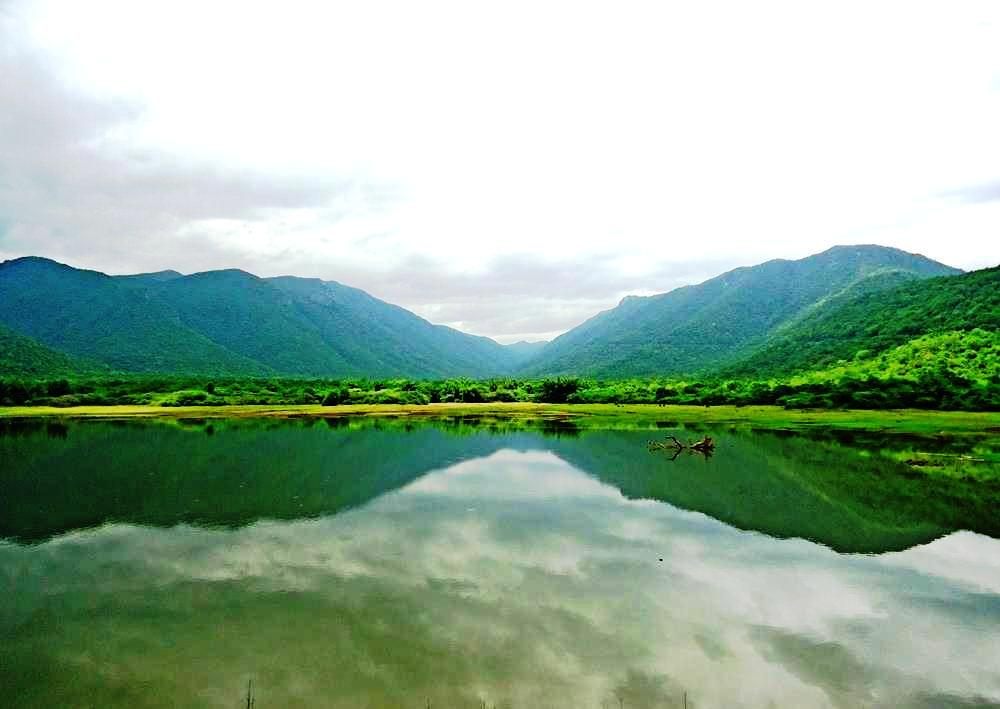 Bhavani river with Western ghats